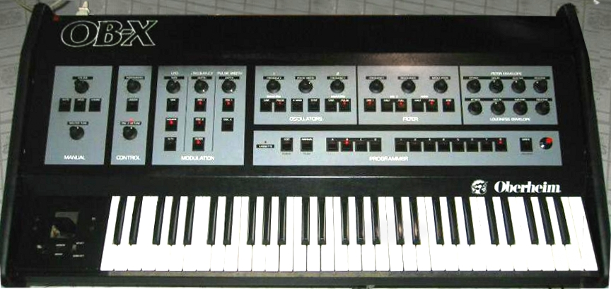 Cropped my original photo a bit. Looks cleaner now.